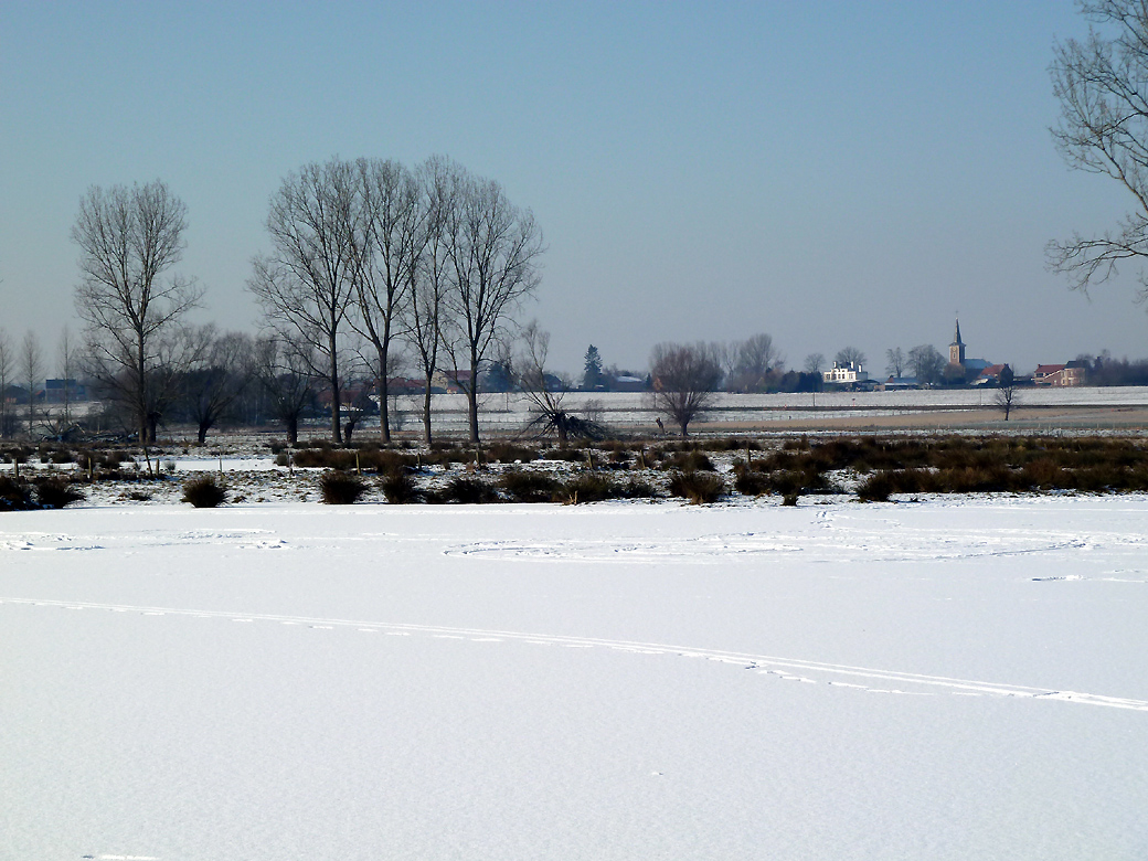 Natural reserve Paddepoel Bunsbeek (winter 2012)